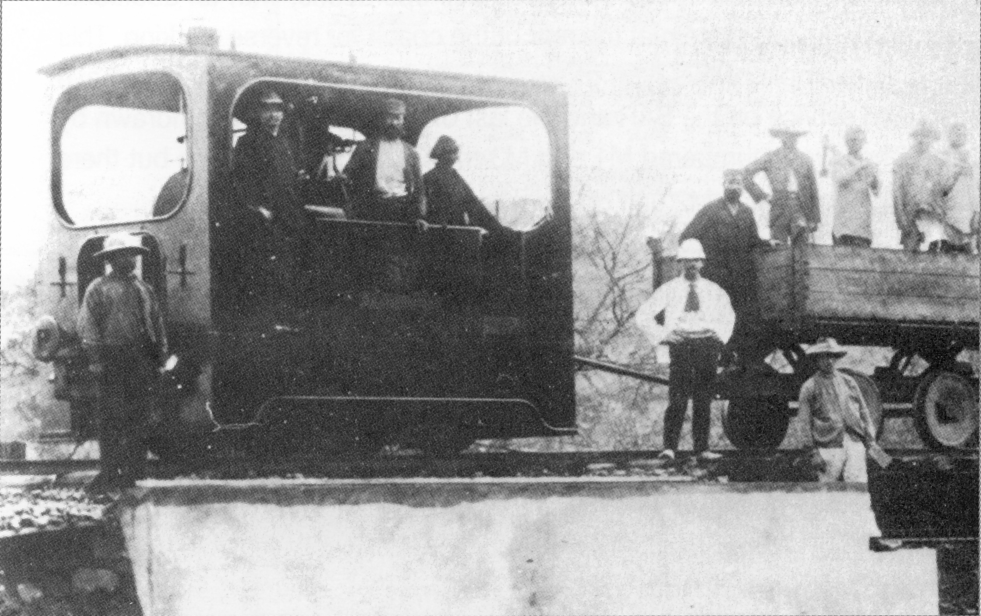 Nederlandsche-Zuid-Afrikaansche Spoorweg-Maatschappij 10 Tonner 0-4-0T tram locomotive